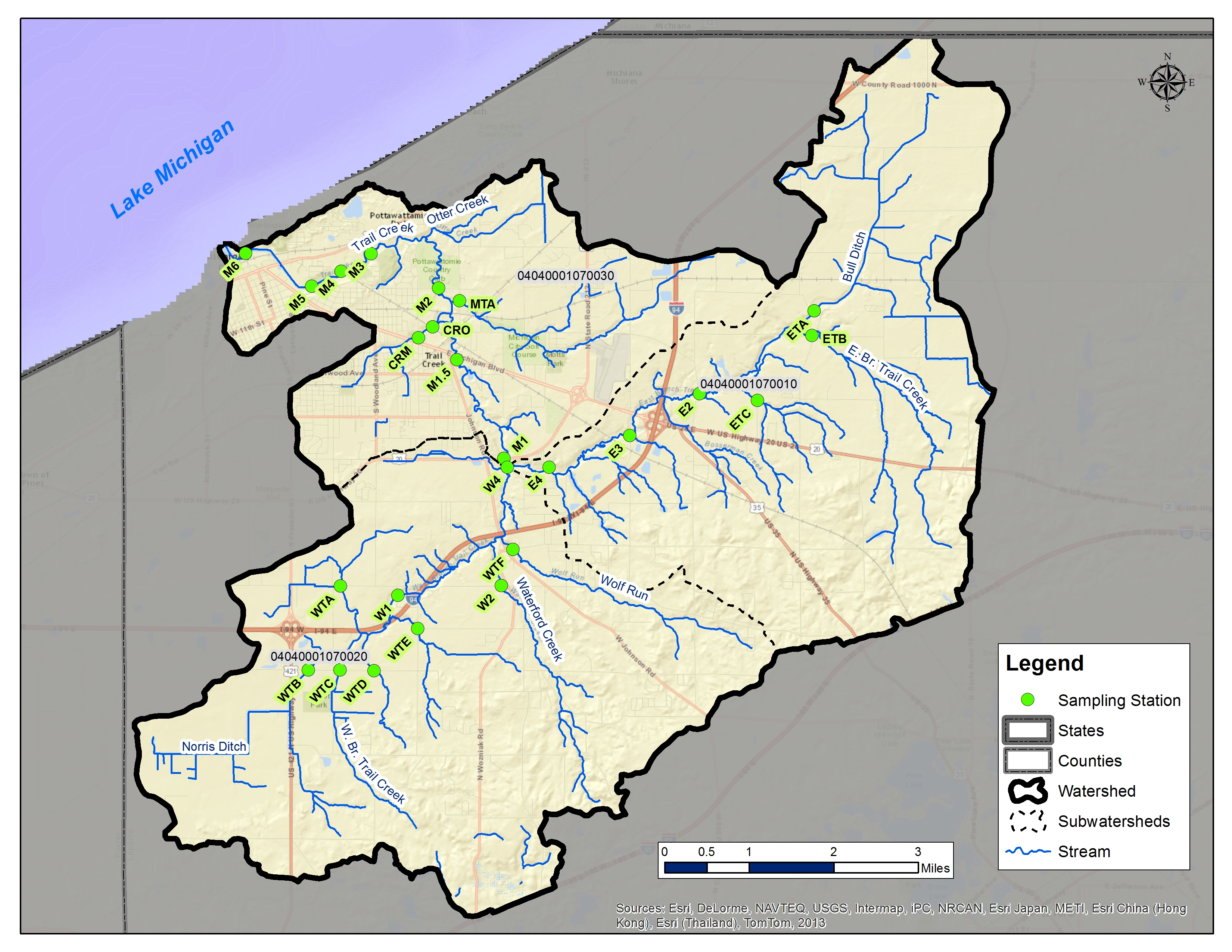 Sampling sites for Trail Creek Watershed Water Monitoring Program